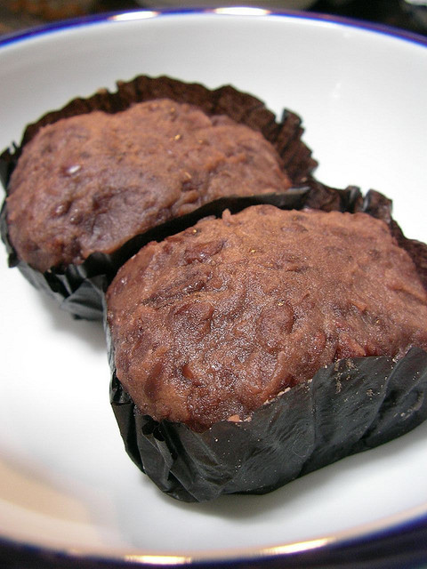 Ohagi, japanese confectionery.